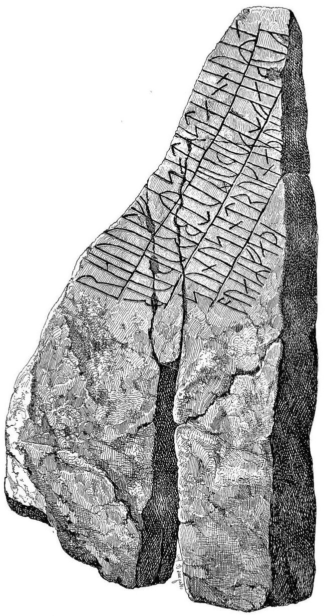 Runestone from DK: Fyn 8, DR 190